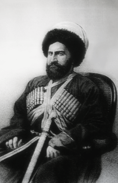 Muhammad (Asiyalo) Amin ibn Hajjio al-Honodi al-Daghestani (1818 or 1819-1899) was Shamil's third naib in the Northwest Caucasus in the mid 19th century.